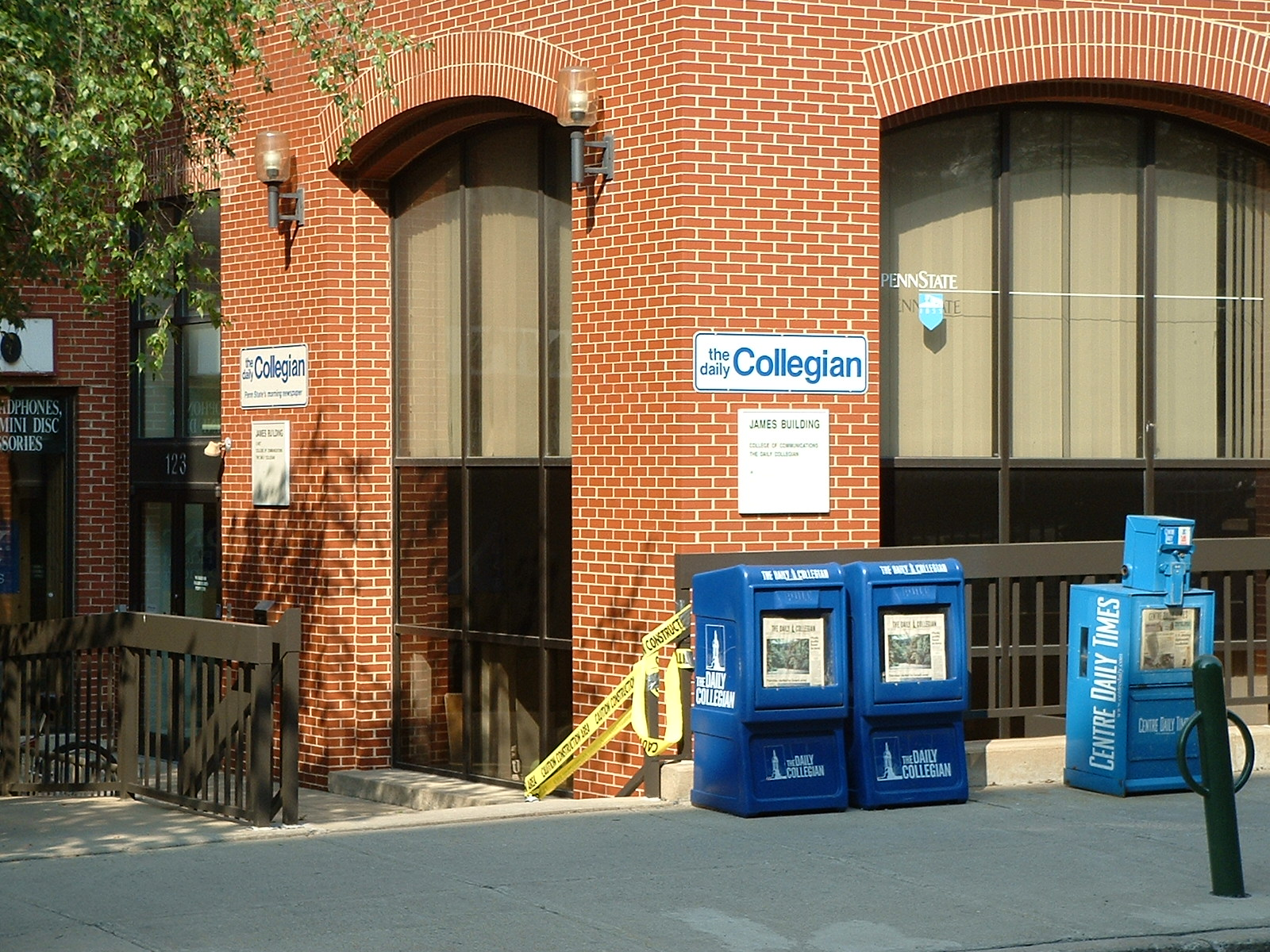 Exterior of the James Building, home of The Daily Collegian newspaper, at Penn State University, University Park, Pennsylvania.